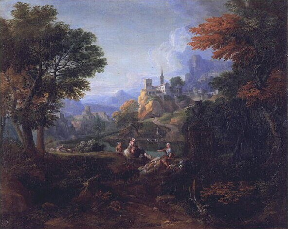 Italian landscape